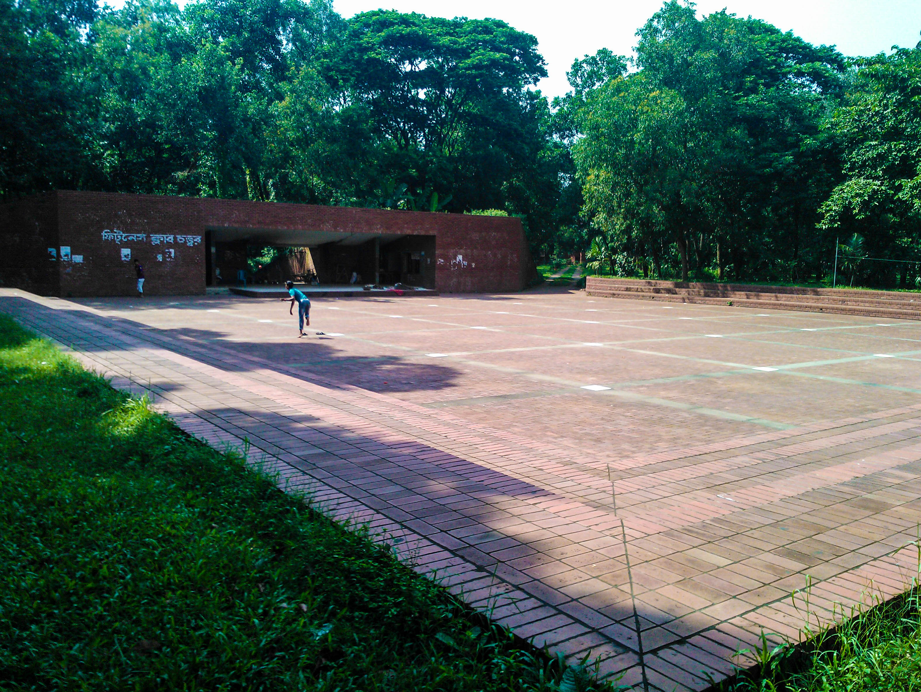 Chandrima Uddan, Dhaka.